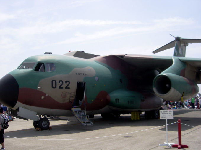 Kawasaki C-1 transport aircraft at the Marine Corps Air Station Iwakuni